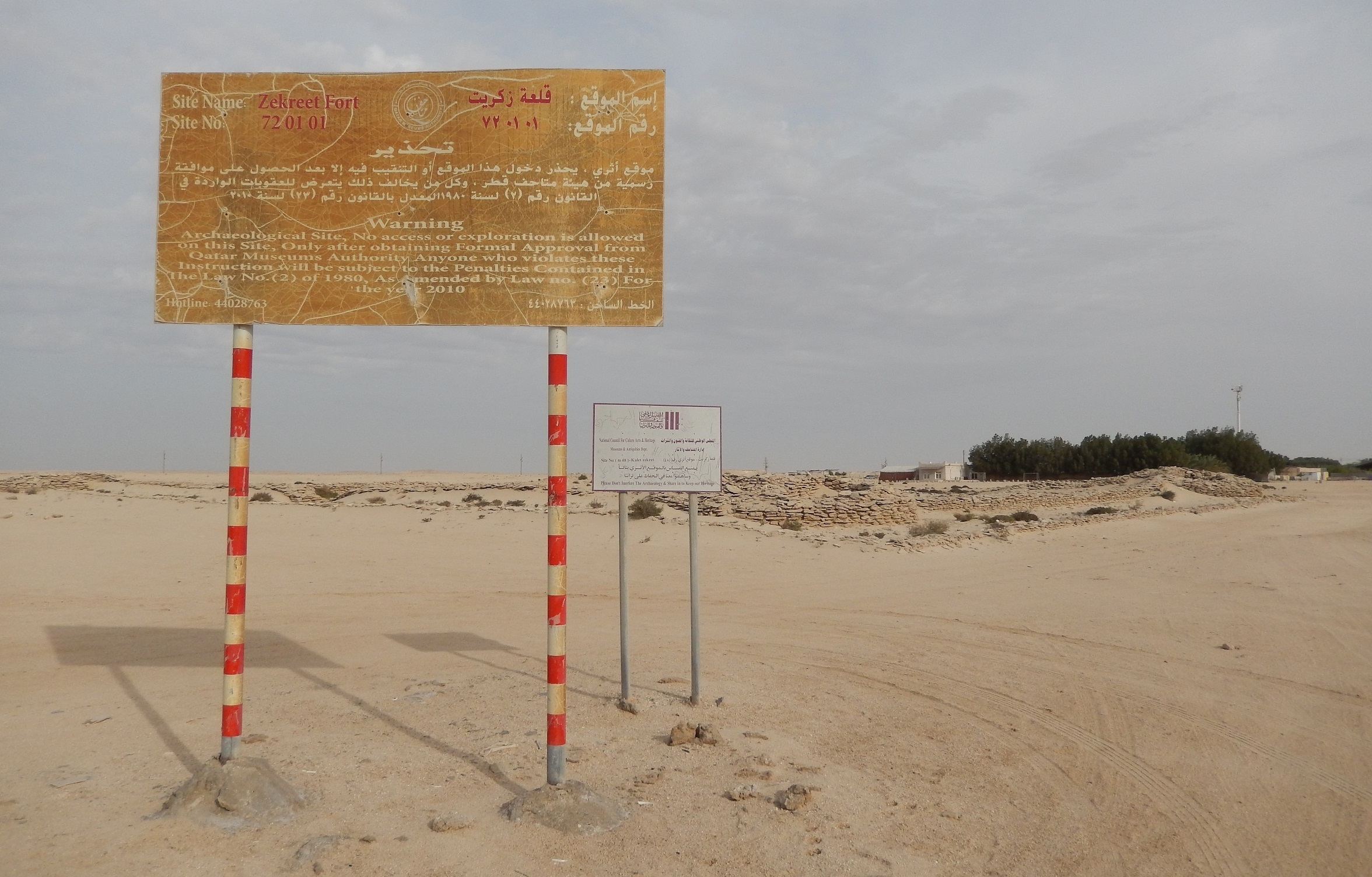 Signpost at the ruins of Zekreet Fort in Zekreet (Bir Zekrit), a village in western Qatar. It reads: "Site Name: Zekreet Fort. Site No: 720101. Warning. Archaeological Site. No access or exploration is allowed on this Site, Only after obtaining Formal Approval from Qatar Museums Authority. Anyone who violates these Instruction will be subject to the Penalties Contained in The Law No. (2) of 1980, As Amended by Law no. (23) For the year 2010. Hotline: 44028763."